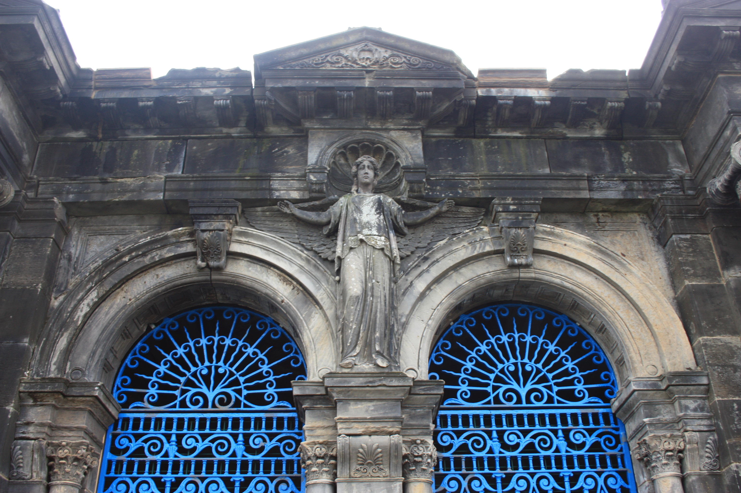 The grave of John Aiken of Dalmoak, Glasgow Necropolis (detail)